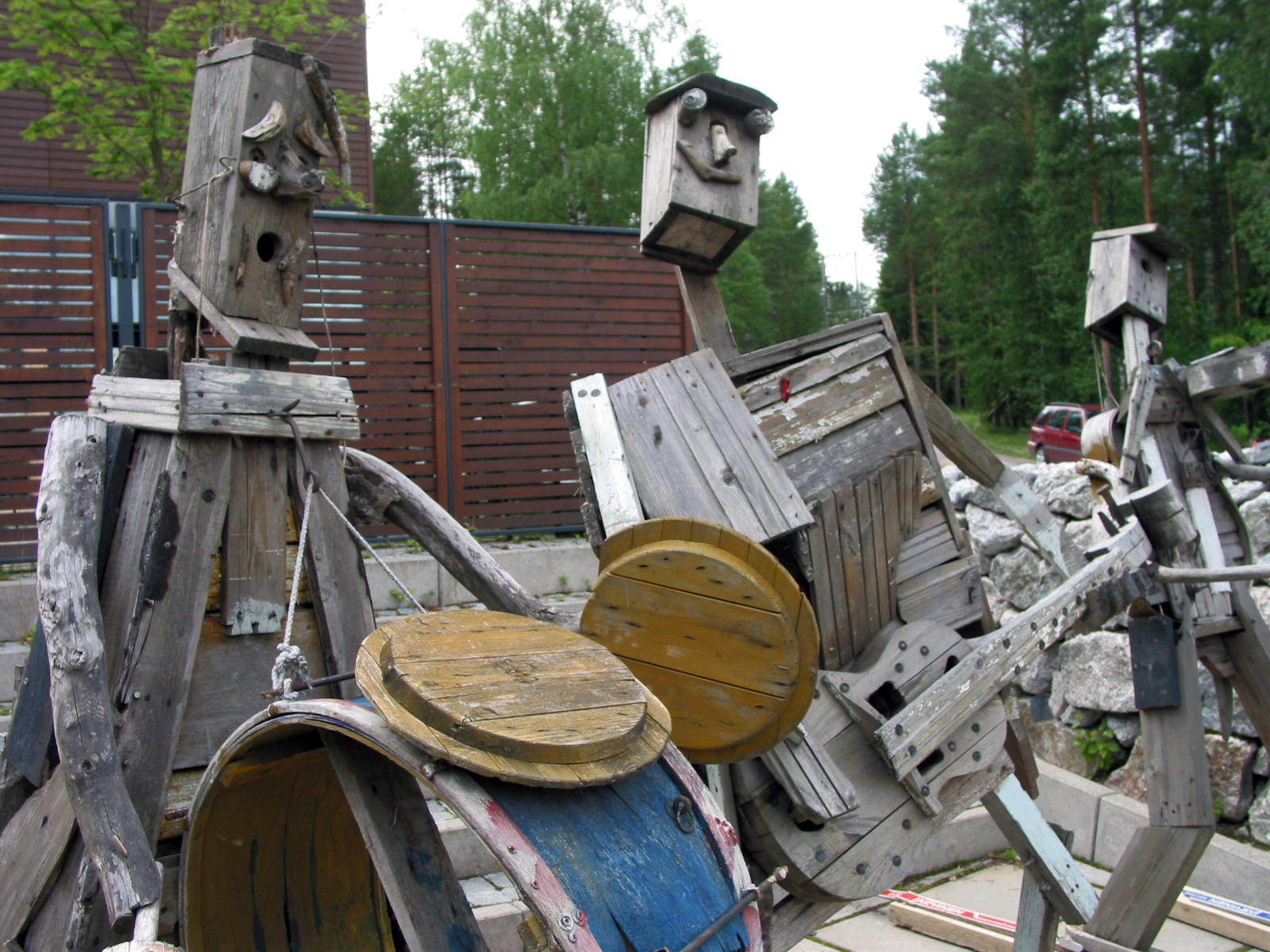 Trio Pönttöpäät ("Trio Birdhouse-heads") by finnish artist Martti Hömppi. Located in Kaustinen, Finland.